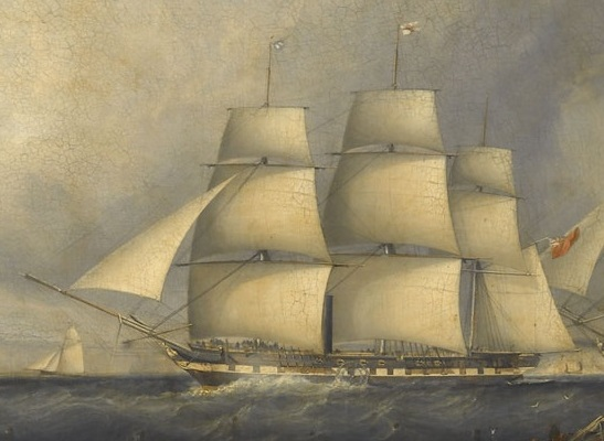 The painting showing the steam auxiliary 'Blackwall frigate' East Indiaman 'Vernon', 996 tons, broadside in the centre on her maiden voyage. She passing HM ships 'Edinburgh' and 'Blenheim' as they beat down Channel off Bembridge, Isle of Wight, on 21 September 1839.